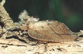 Drepanepteryx phalaenoides